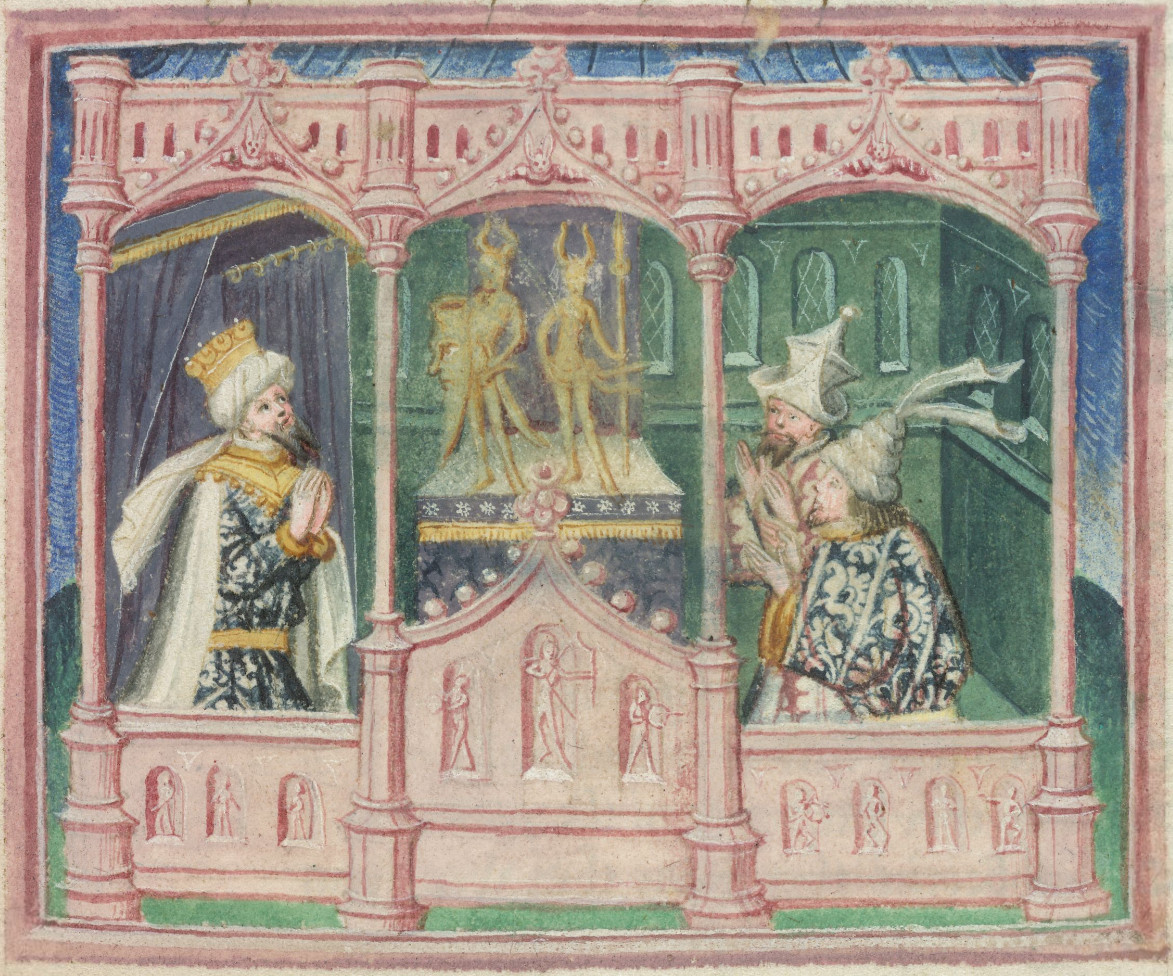 Excerpt from folio 39r of Harley MS 2278. The scene depicts Lothbrok, king of Danes, and his sons, Hinguar and Hubba, worshiping idols.